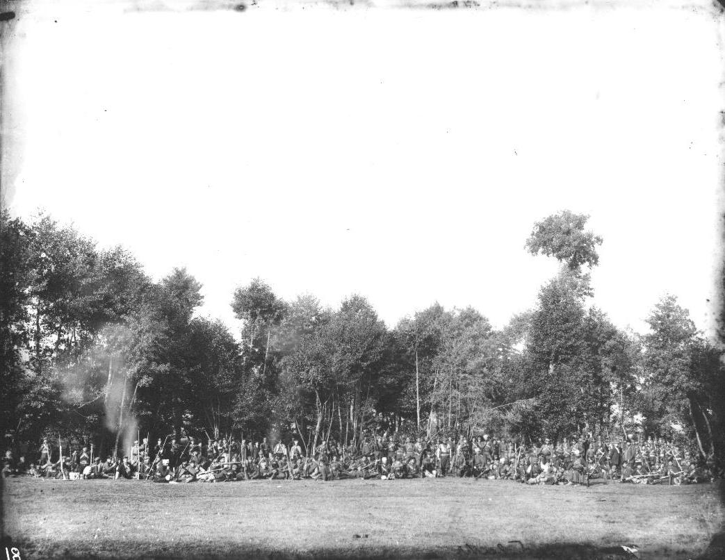 Cheta of Sotir Atanasov, Iliya Karabiberov, Anton Shipkov and others